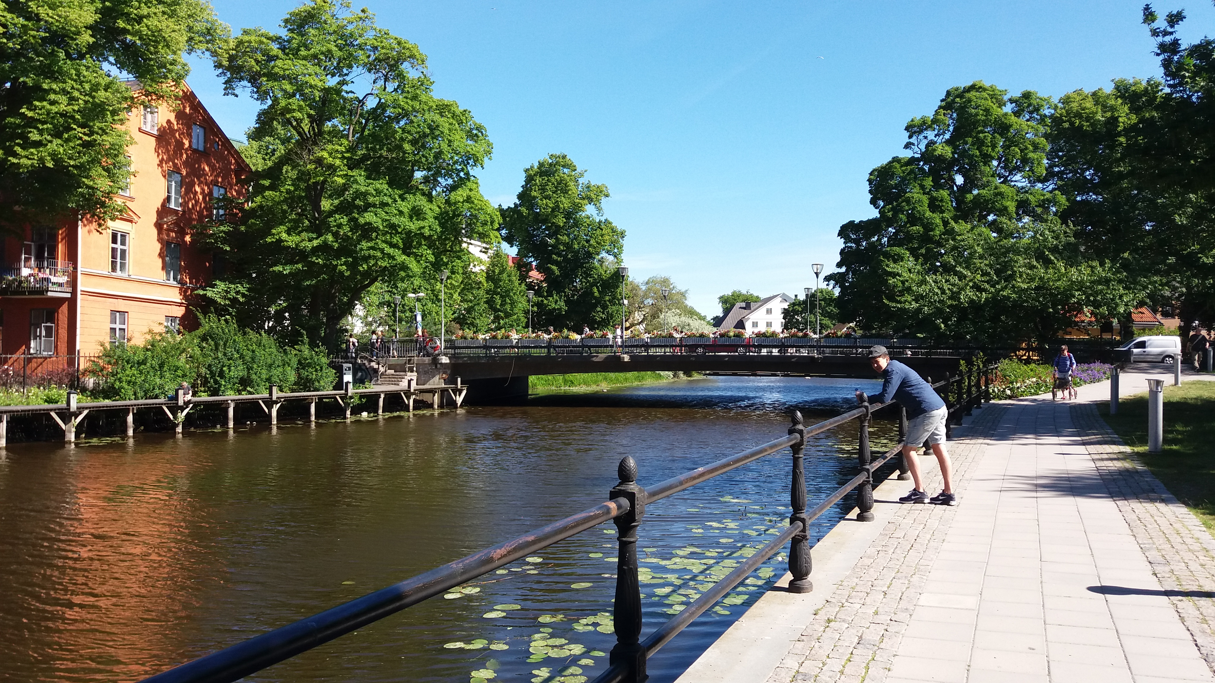 S:t Olofsbron, Uppsala